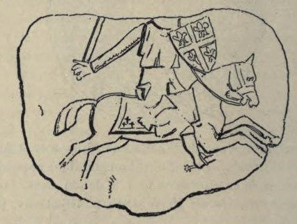 Seal of Riccardo Orsini